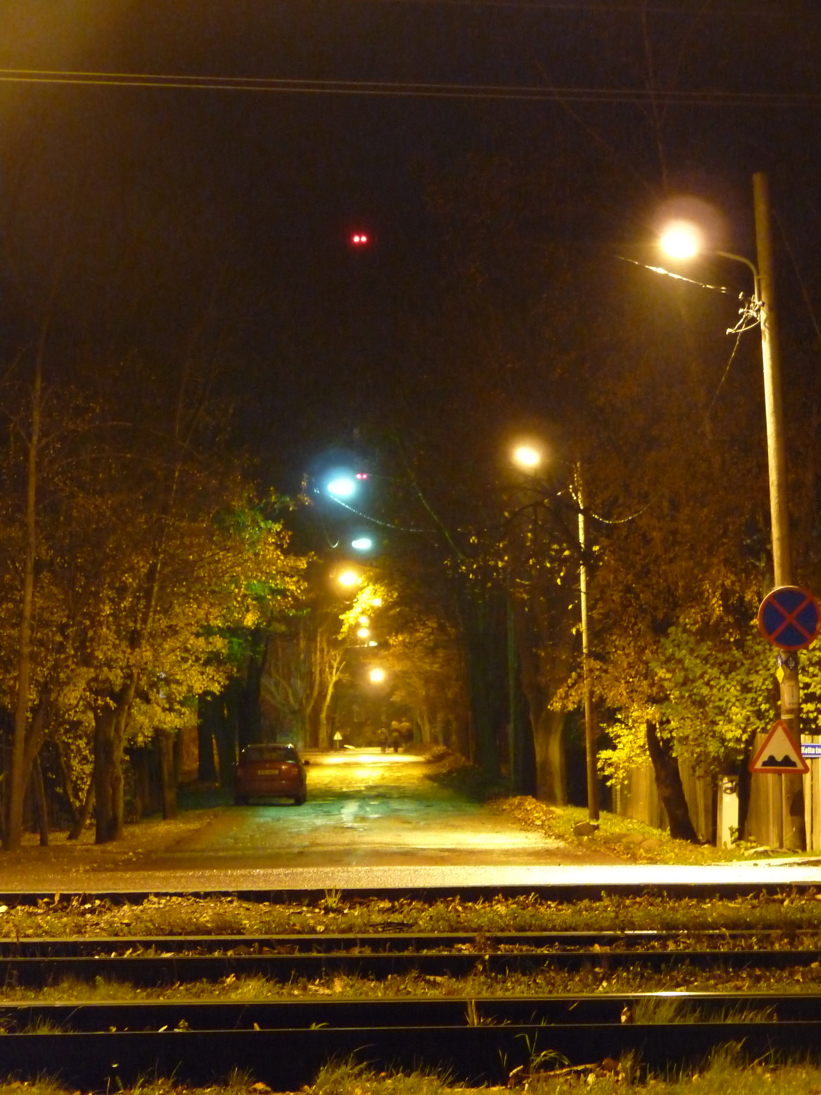 Ketta street in Tallinn, Estonia.